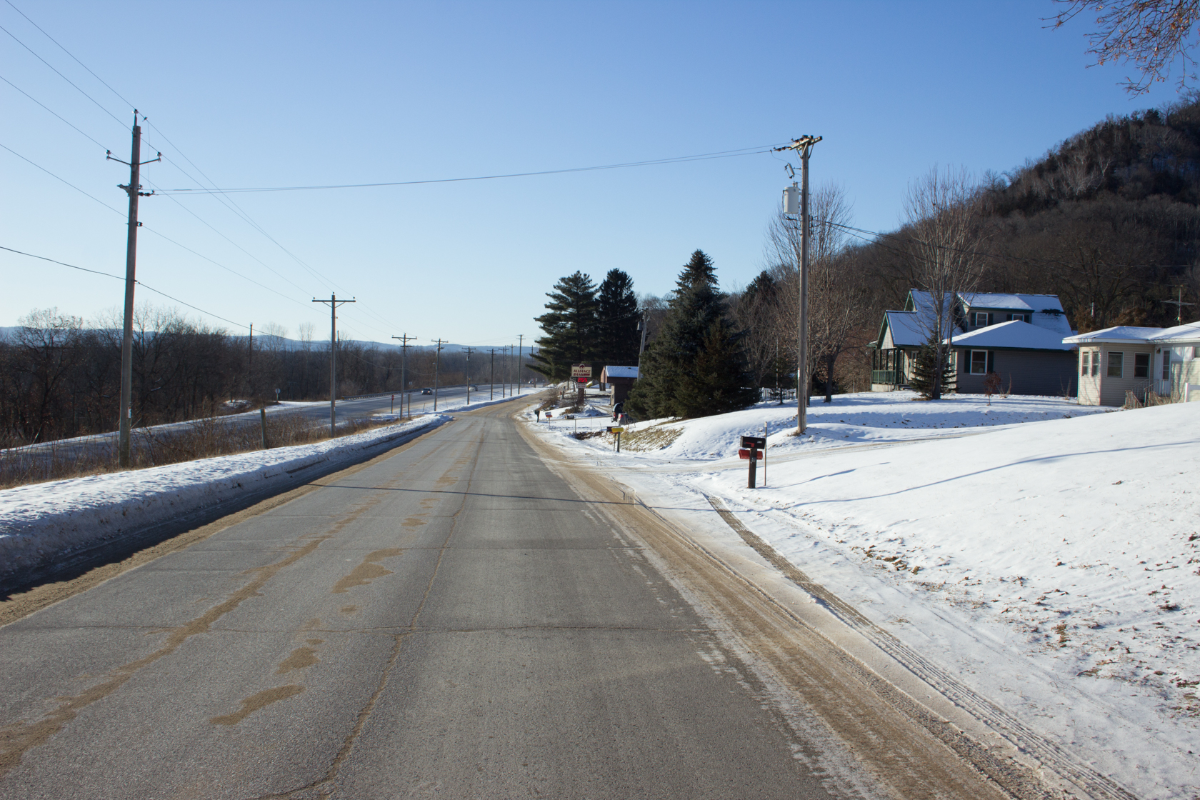 Bluff Siding road. New Years Day, 2018